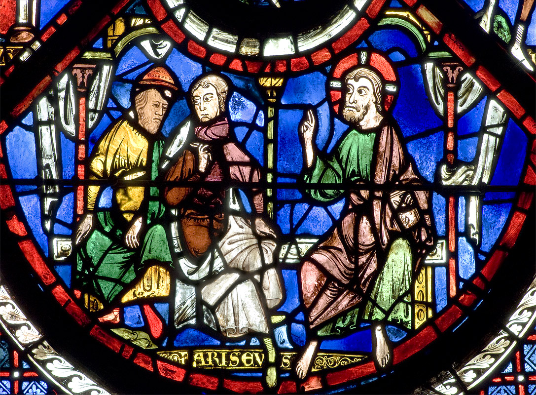 Christ telling the parable of the Good Samaritan (panel 4).